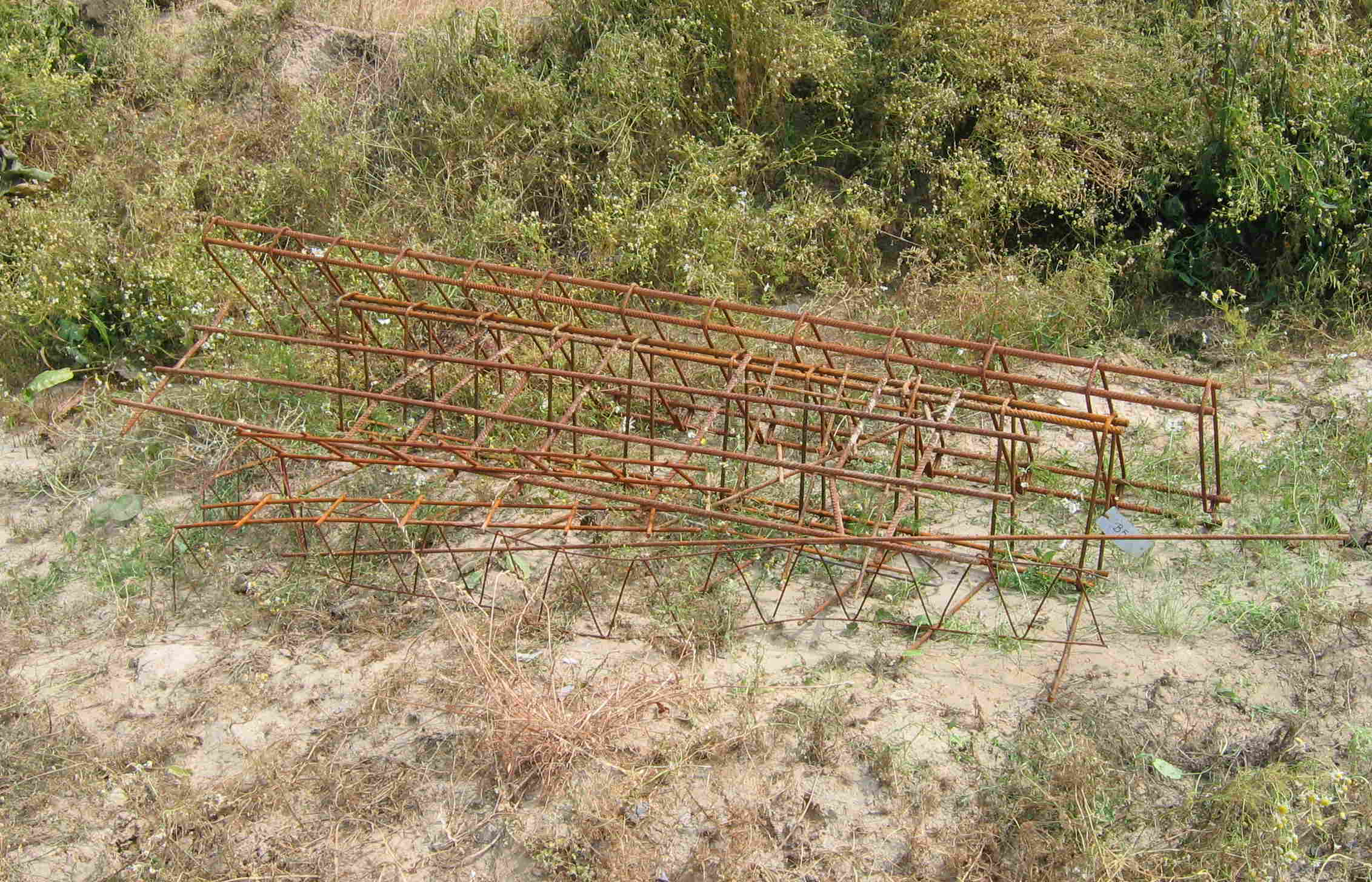 A picture of rebars being thrown away at a construction site. If rebars could be collected and remelted, allot of materials should not need to be wasted, money could be made and/or saved and the environment could be spared.